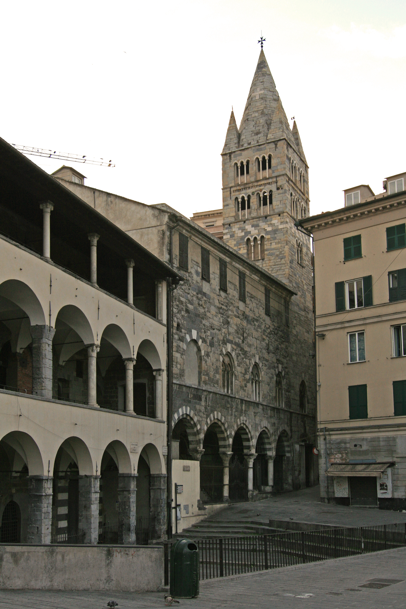 The Commenda di San Giovanni di Pré, Genova.